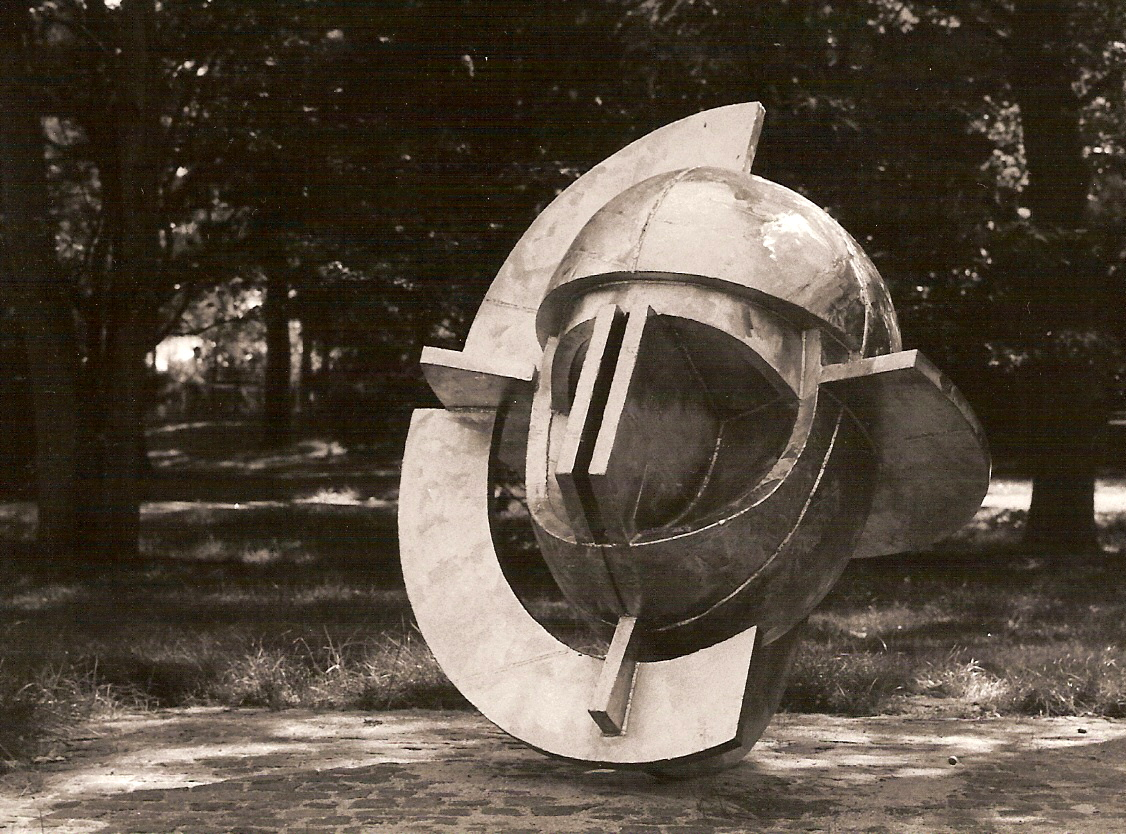 Fotograph of Gabriele Marwede’s sculpture Zeichen des Galilei in front of the Kernforschungszentrum Karlsruhe.